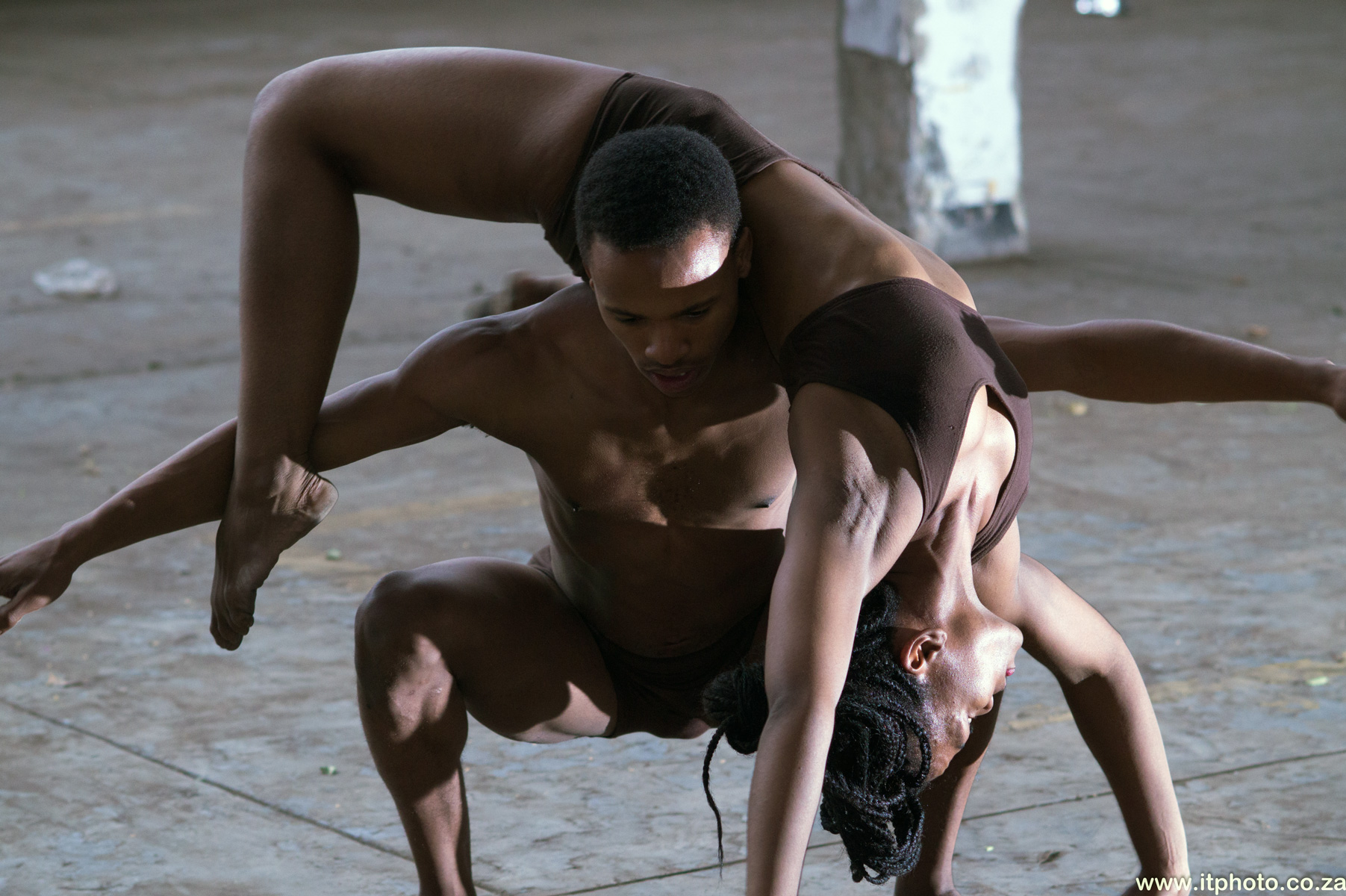 I loved the beautiful pose of this couple in an intense dance movement. Shot walking around Joburg in an old warehouse with Joburg Photowalkers. This is an image with the theme "Africa on the Move or Transport" from: South Africa